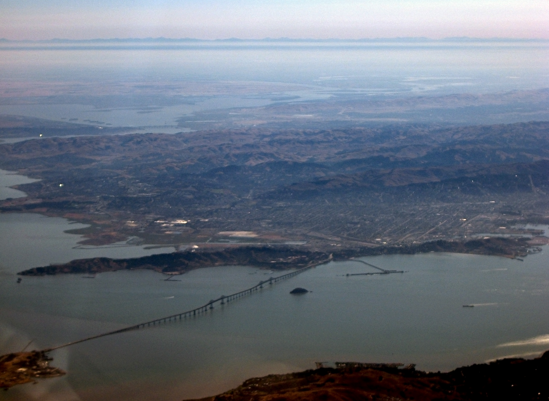 An aerial view of Richmond.